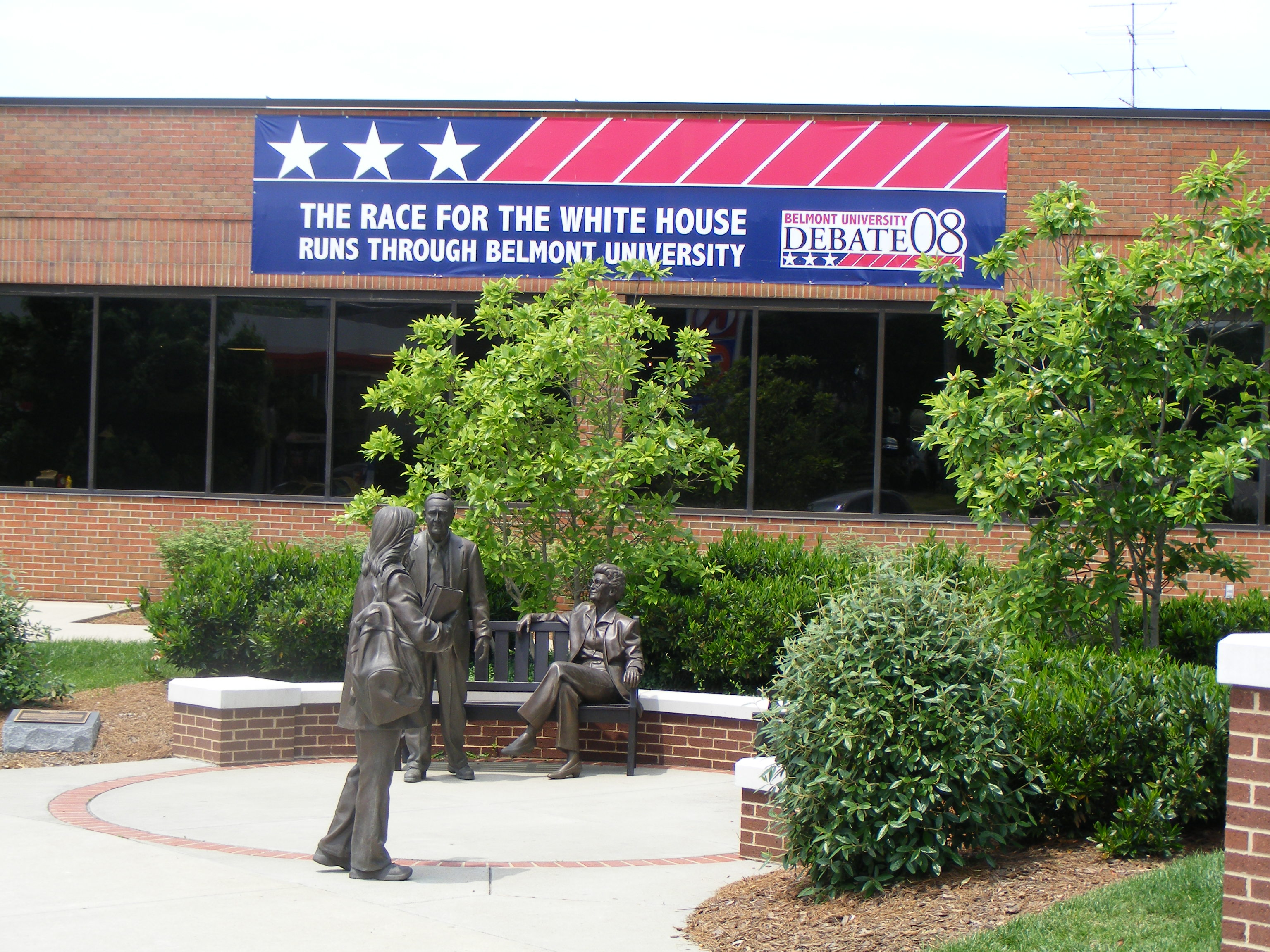 Belmont University in Nashville, Tennessee.